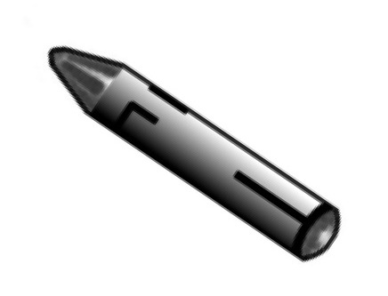 Alfa rocket (an italian SLBM project) shape.